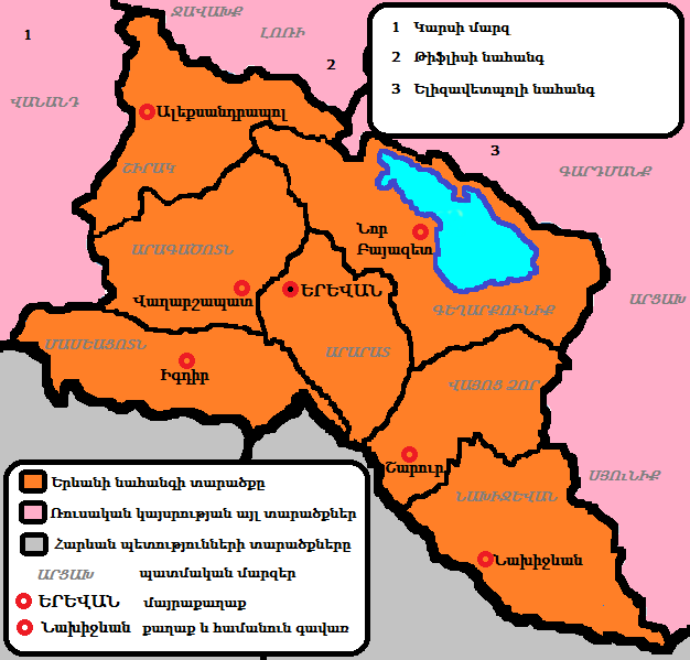 Yerevan governorate, one of the Armenian states in South Caucasus